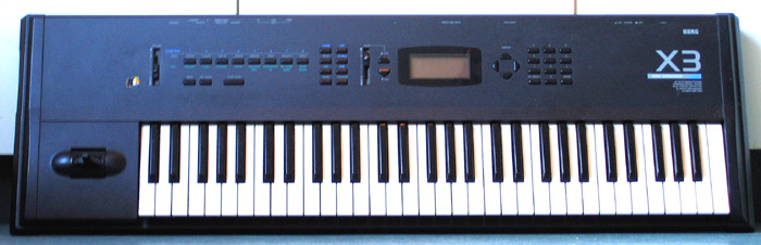 Image of the Korg X3 synthesizer